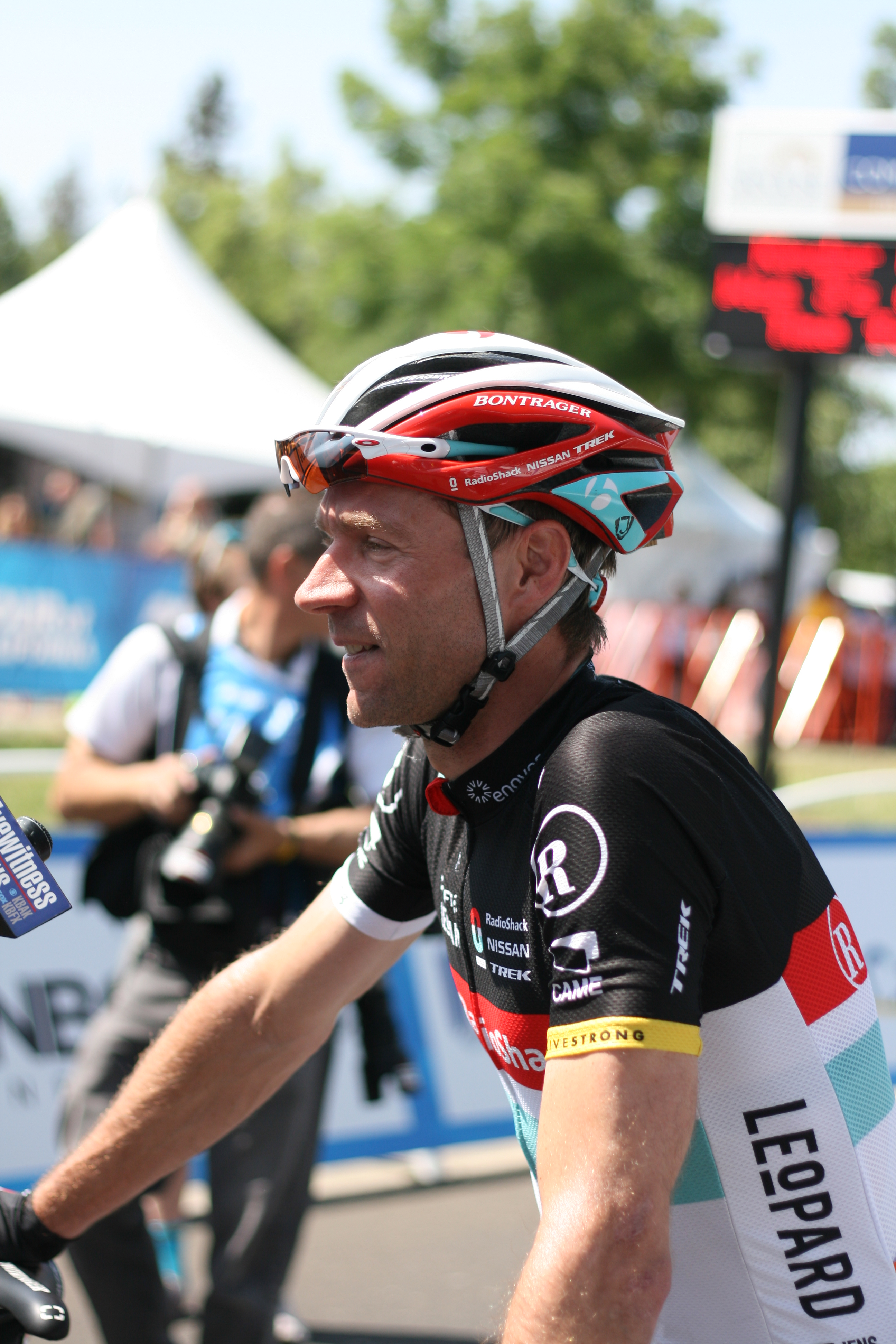 2012 Amgen Tour of California Stage 3 start, Berryessa Road, San Jose, CA